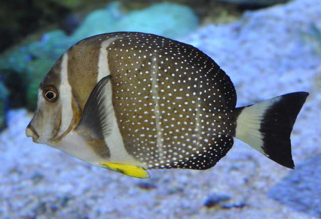 Acanthurus guttatus